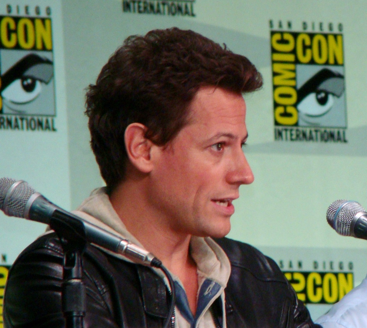 Ioan Gruffudd at Ringer Panel at the 2011 Comic-Con International